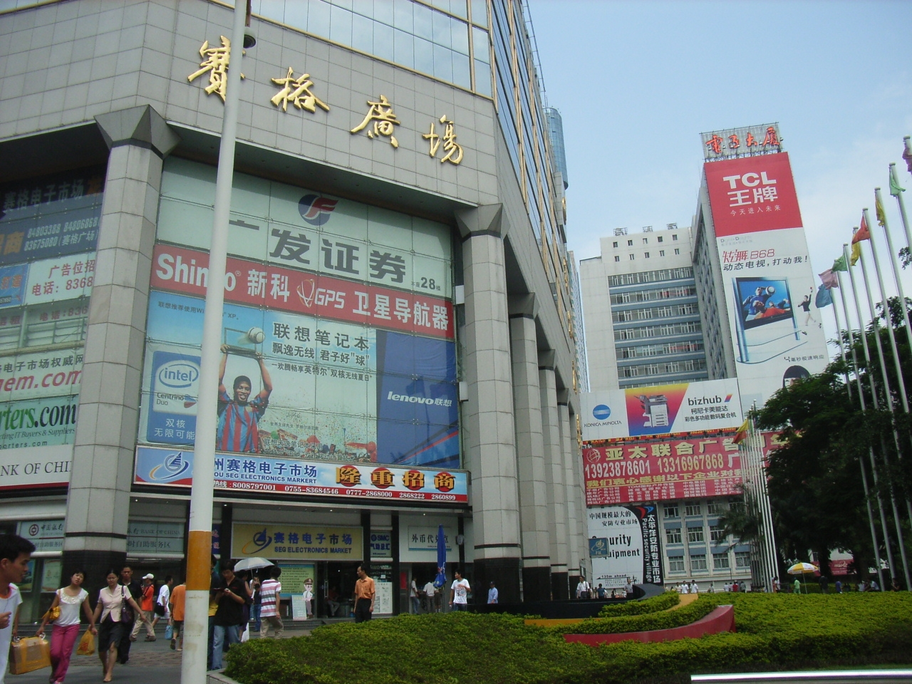 Shenzhen, China (Author is SAMZ).